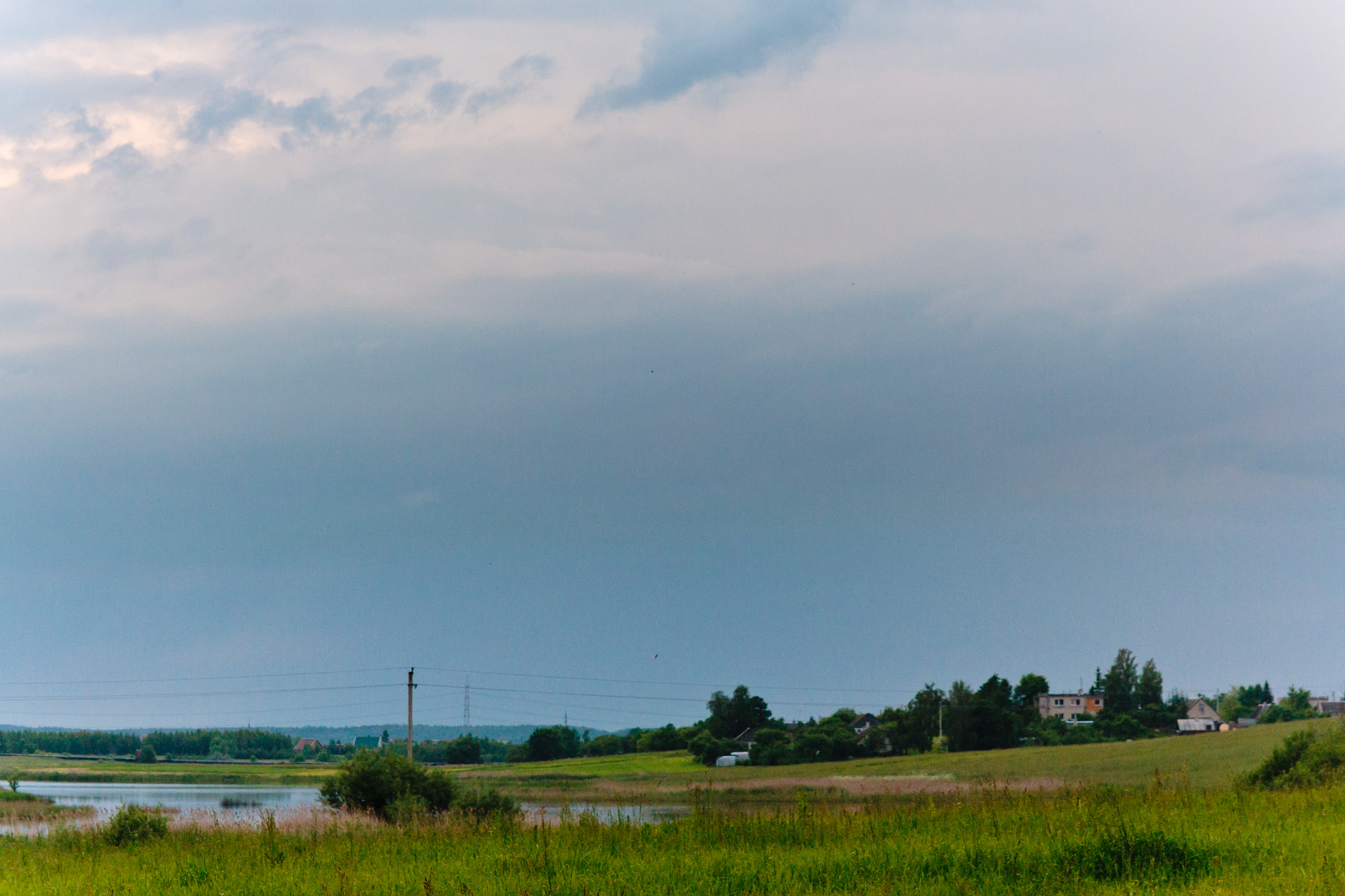 Naujosios Kietaviškės and Spengla River, Lithuania